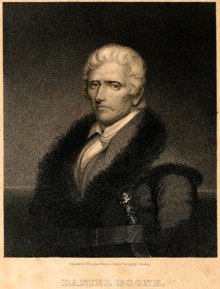 A photo of explorer Daniel Boone, presented in the first article included in John Filson's appendix.